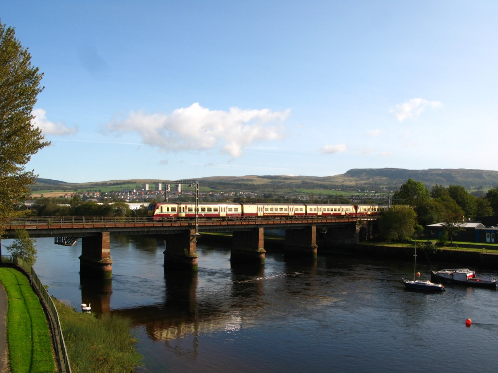 An Edinburgh waverley to Helensburgh Central service crosses the River Leven at Dunbarton as it approaches Dalreoch station which is on the west (left) bank. The train is formed of Class 334 electric multiple units 334018 and 334034.